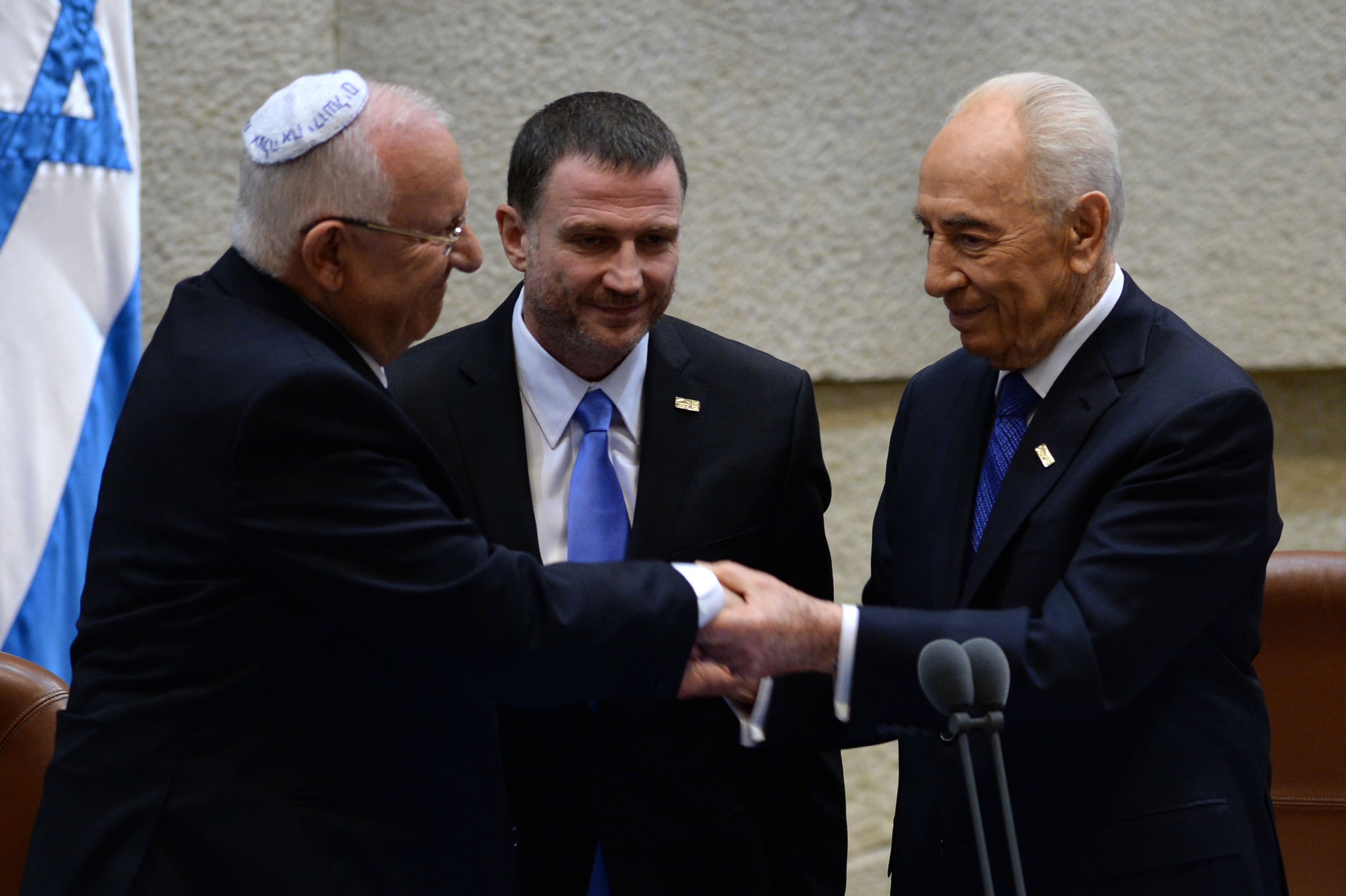 טקס השבעת אמונים בכנסת לנשיא הנבחר של מדינת ישראל ראובן רובי ריבלין Photo by Kobi Gideon / GPO